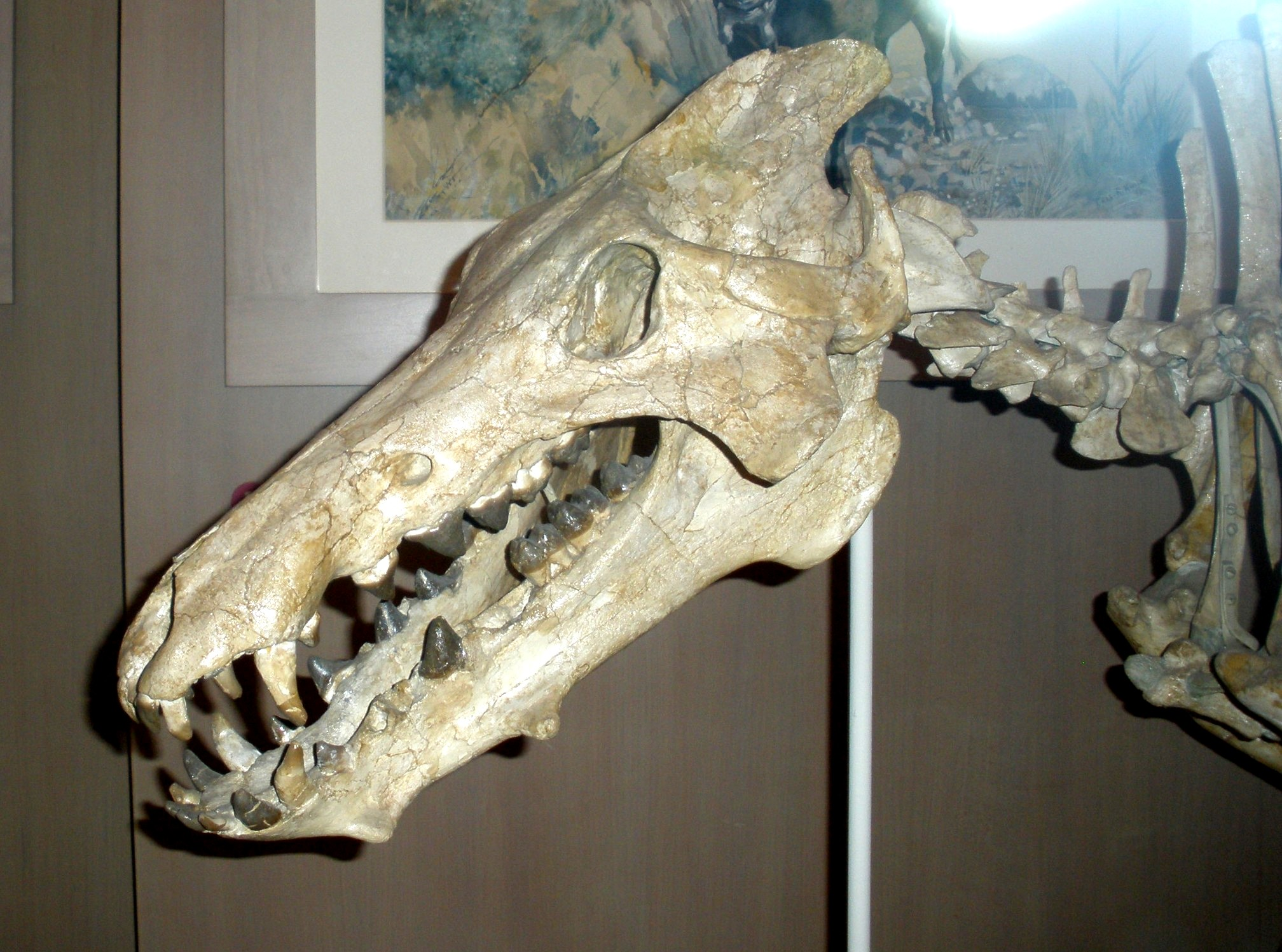 Skull of Archaeotherium mortoni, a fossil ungulate